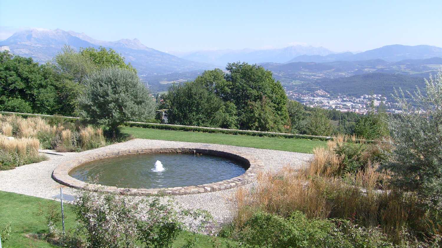 Terrace garden; the grass family( Domaine de Charance, Gap, Hautes-Alpes)